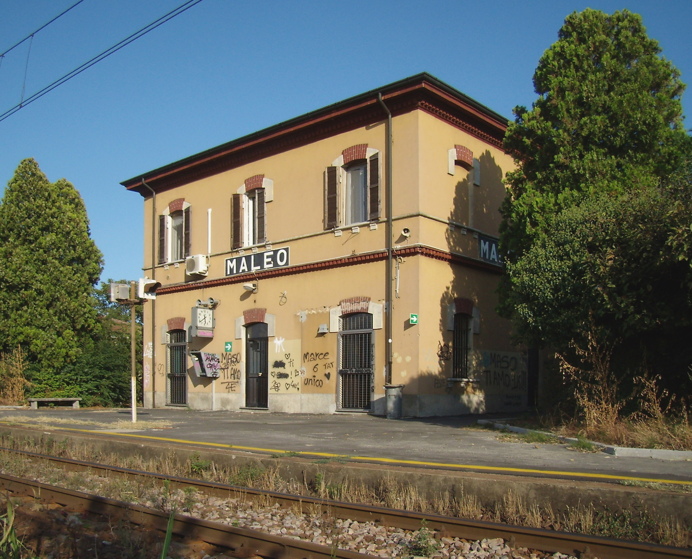 Railway station in Maleo (LO), Italy